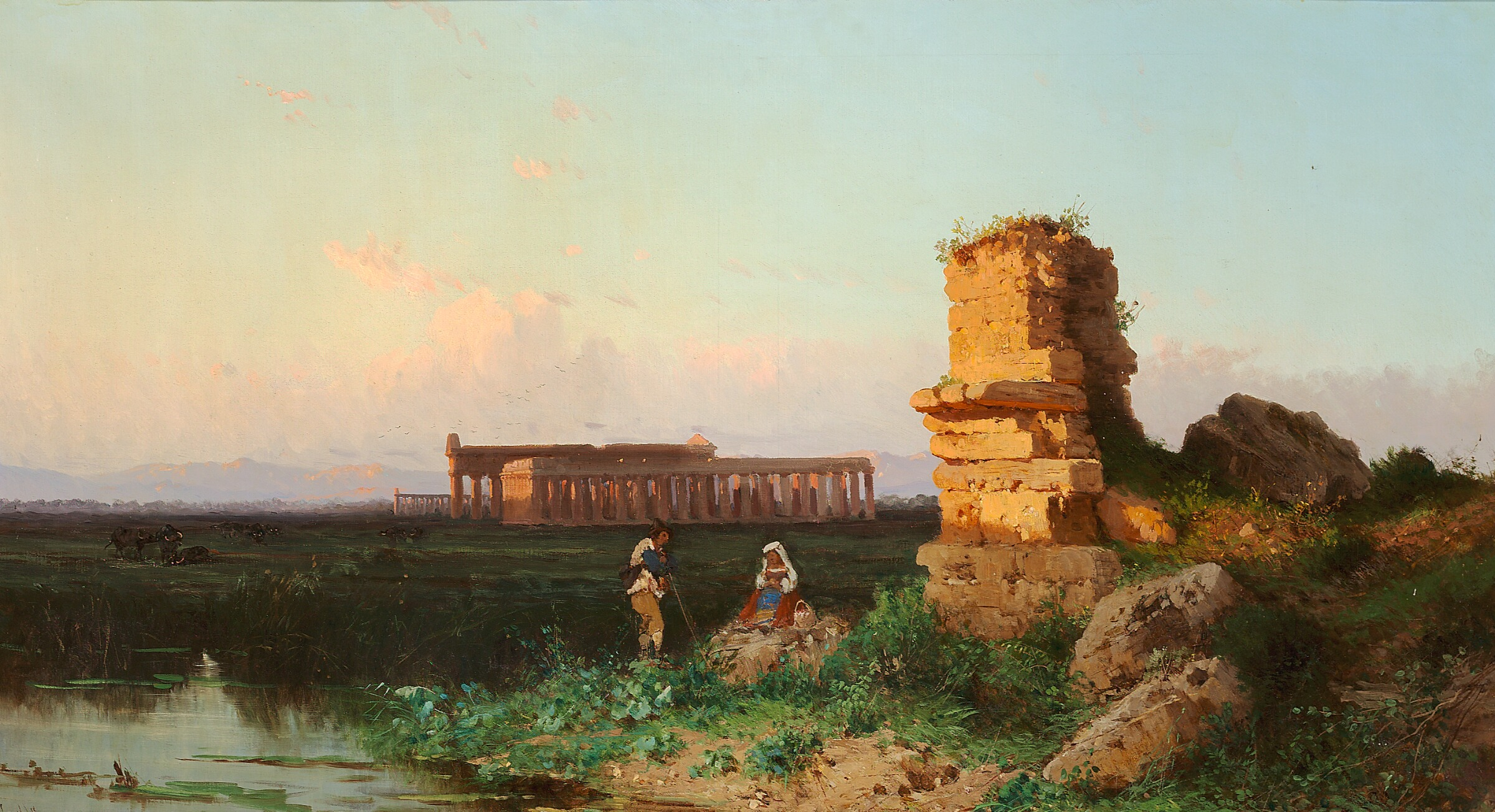 The catalogue mentions that there is a date next to the signature, but unfortunately it is no longer readable.